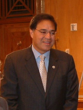 Senator Akaka and Honolulu Mayor Mufi Hannemann greet witnesses for the Subcommittee on Oversight of Government Management hearing on REAL ID. Mayor Hannemann also testified on REAL ID's impact on drivers' licensing procedures in Hawaii. (Washington D.C.)